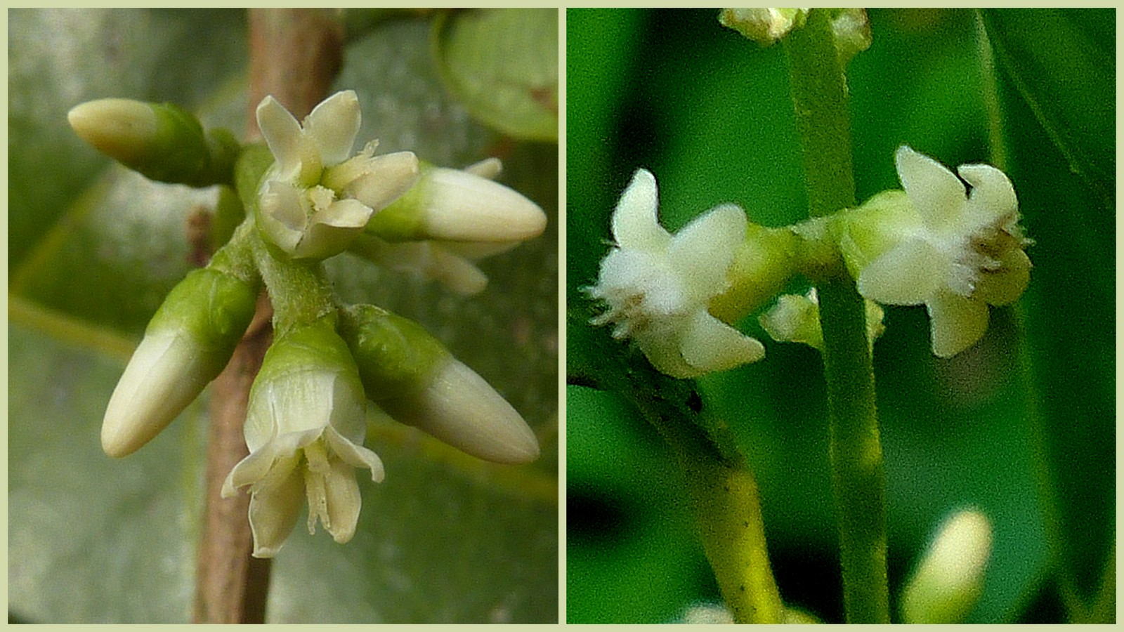 Pistillate and staminate flowers.